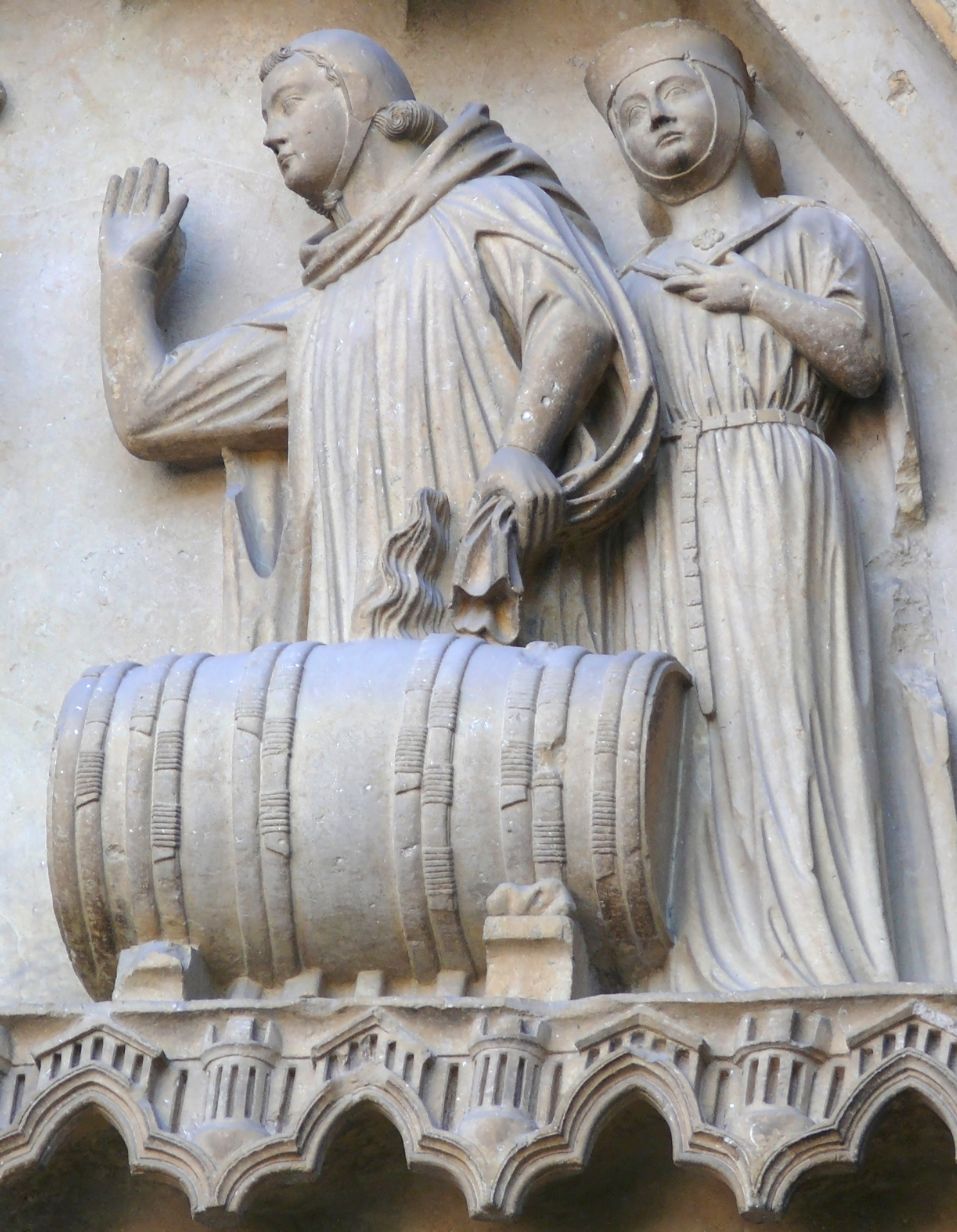 Sculpture in the north façade of the Cathedral of Notre-Dame Cathedral of Notre-Dame , Reims. High five over a barrel, possibly concluding a sale.